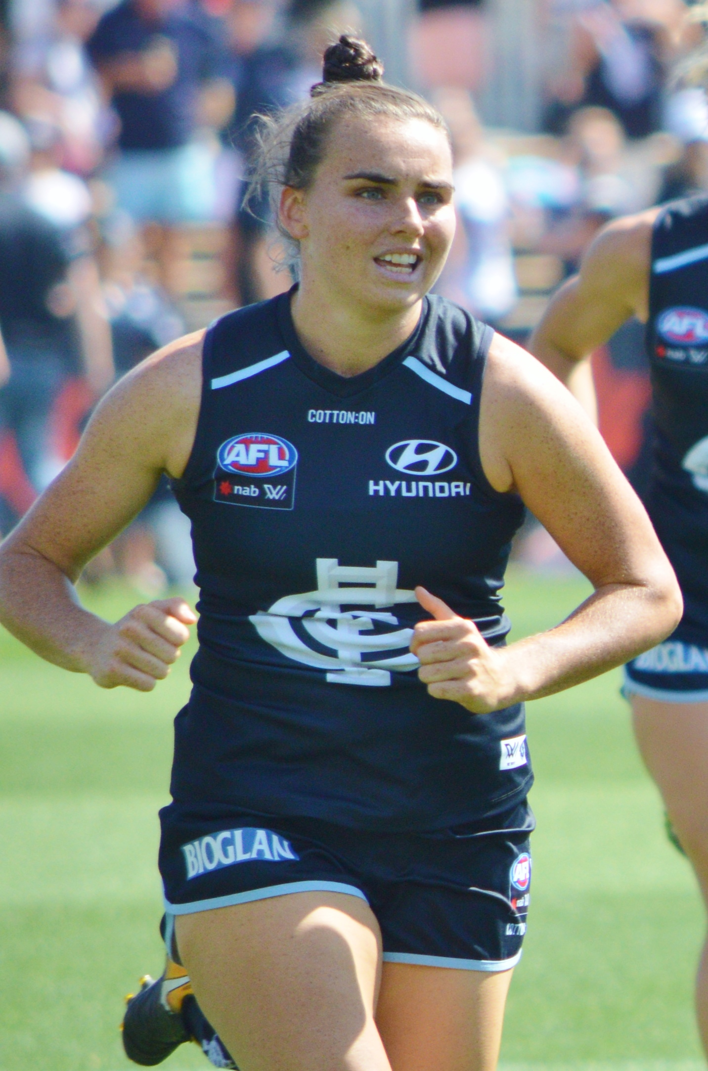 Lauren Brazzale with Carlton during a preliminary final against Fremantle at Ikon Park in March 2019.